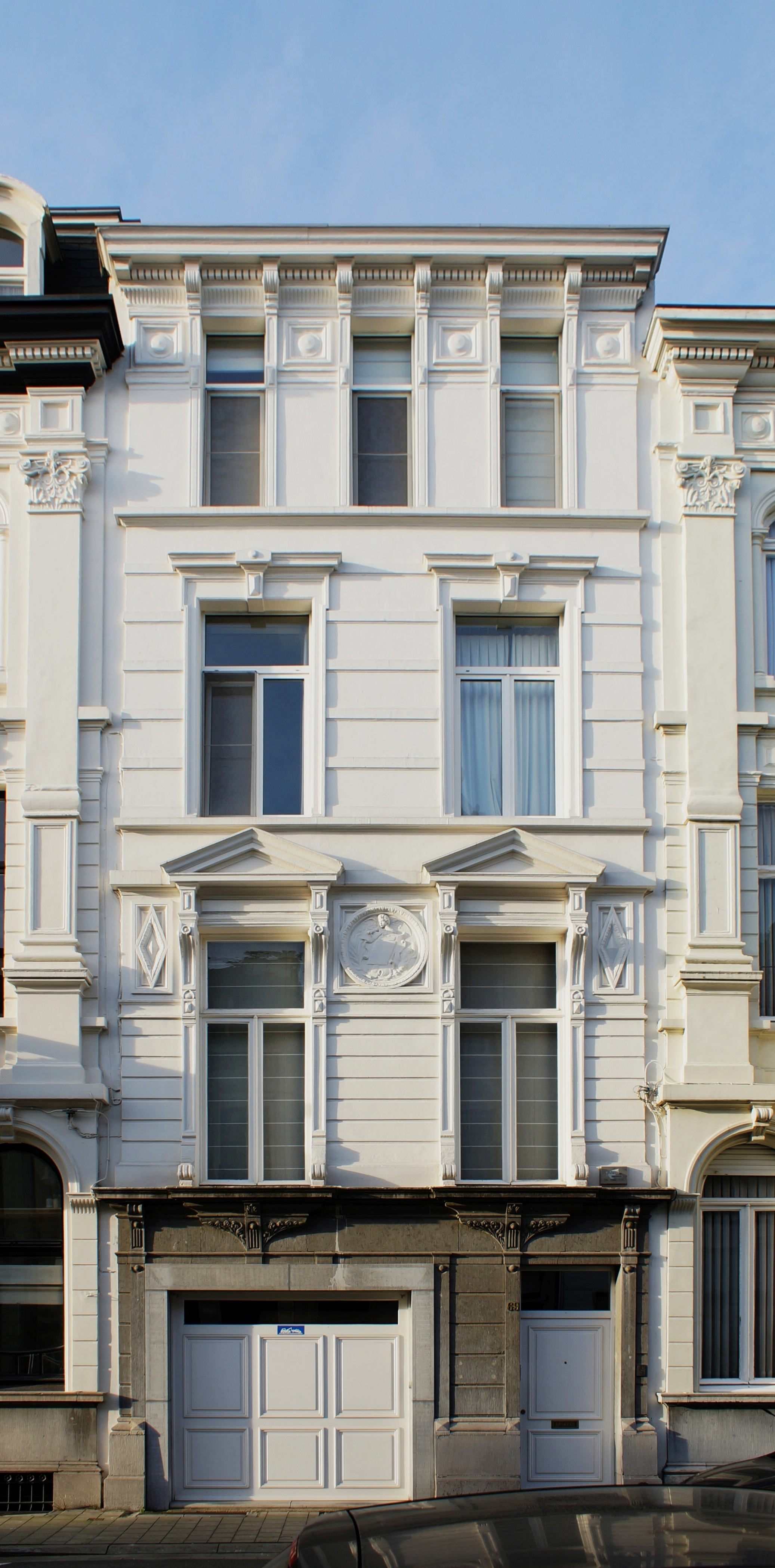 House in the Lange Van Ruusbroecstraat 69 - Antwerp - Private home of Jules Hofman - Oeuvre of architect Jules Hofman